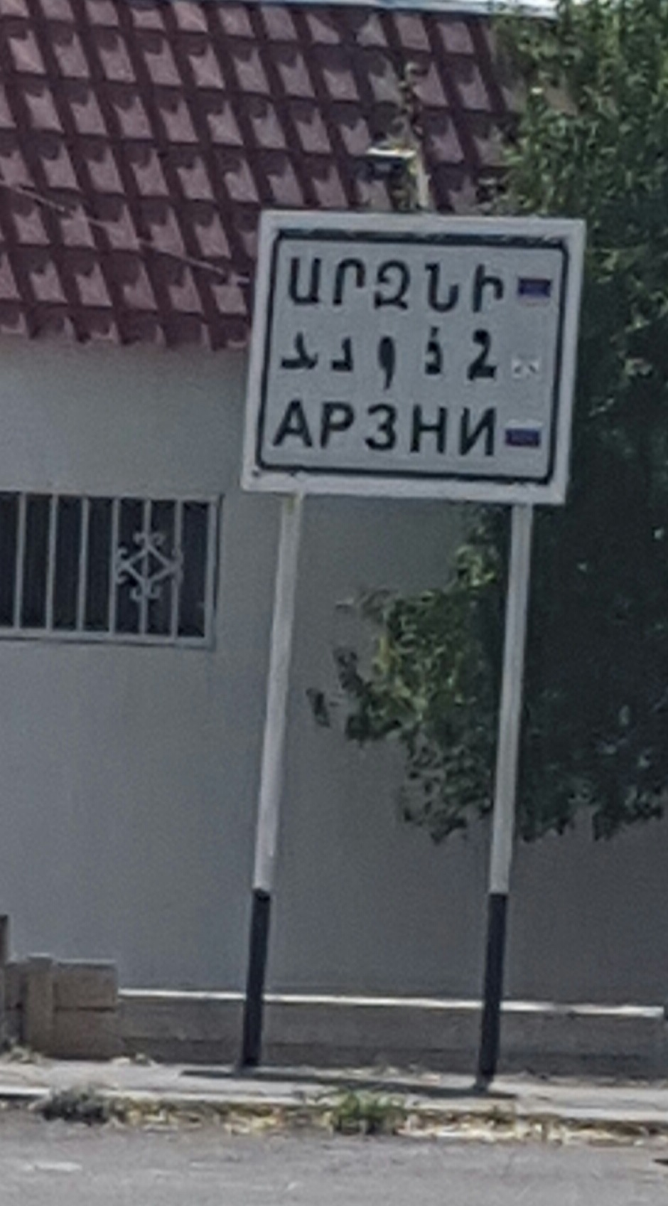 A trilingual sign at the entrance of the Assyrian populated village of Arzni in Armenia